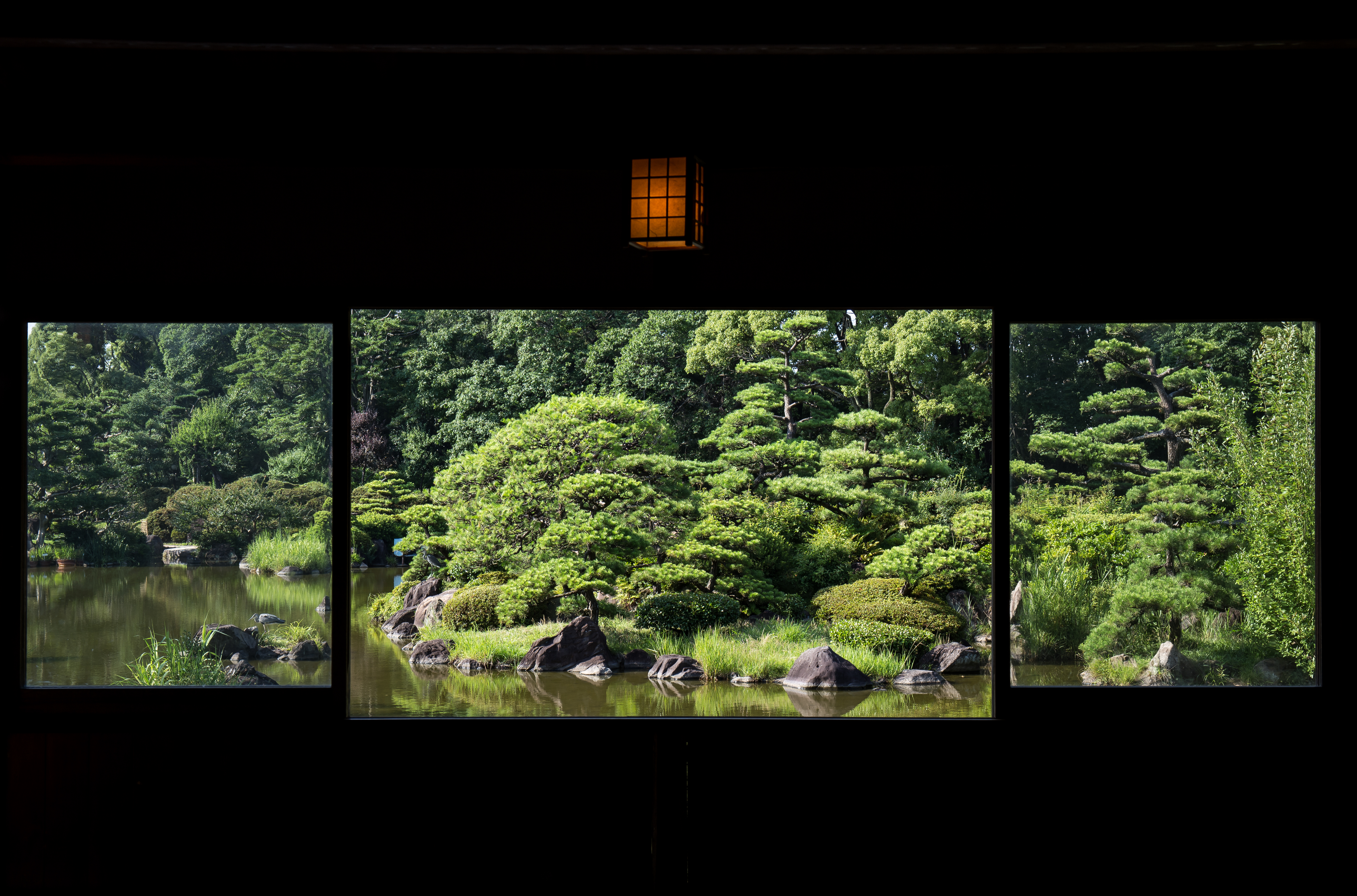 A Japanese garden scene through a window from the Keitaku-en chickee.